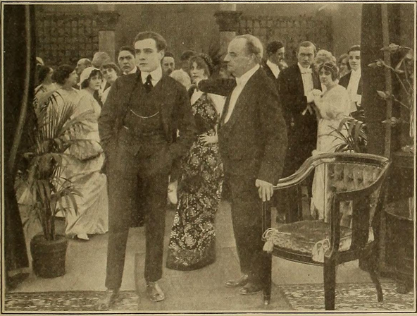 Still from 1914 silent film "The Master Cracksman", appearing in June 13, 1914 issue of Motography